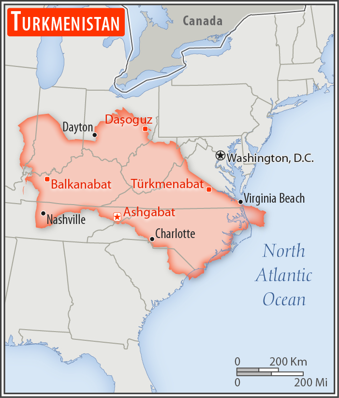 Comparison of the areas of two country. The area of Turkmenistan with biggest cities (red) overlay the area of the United States of America (gray background).